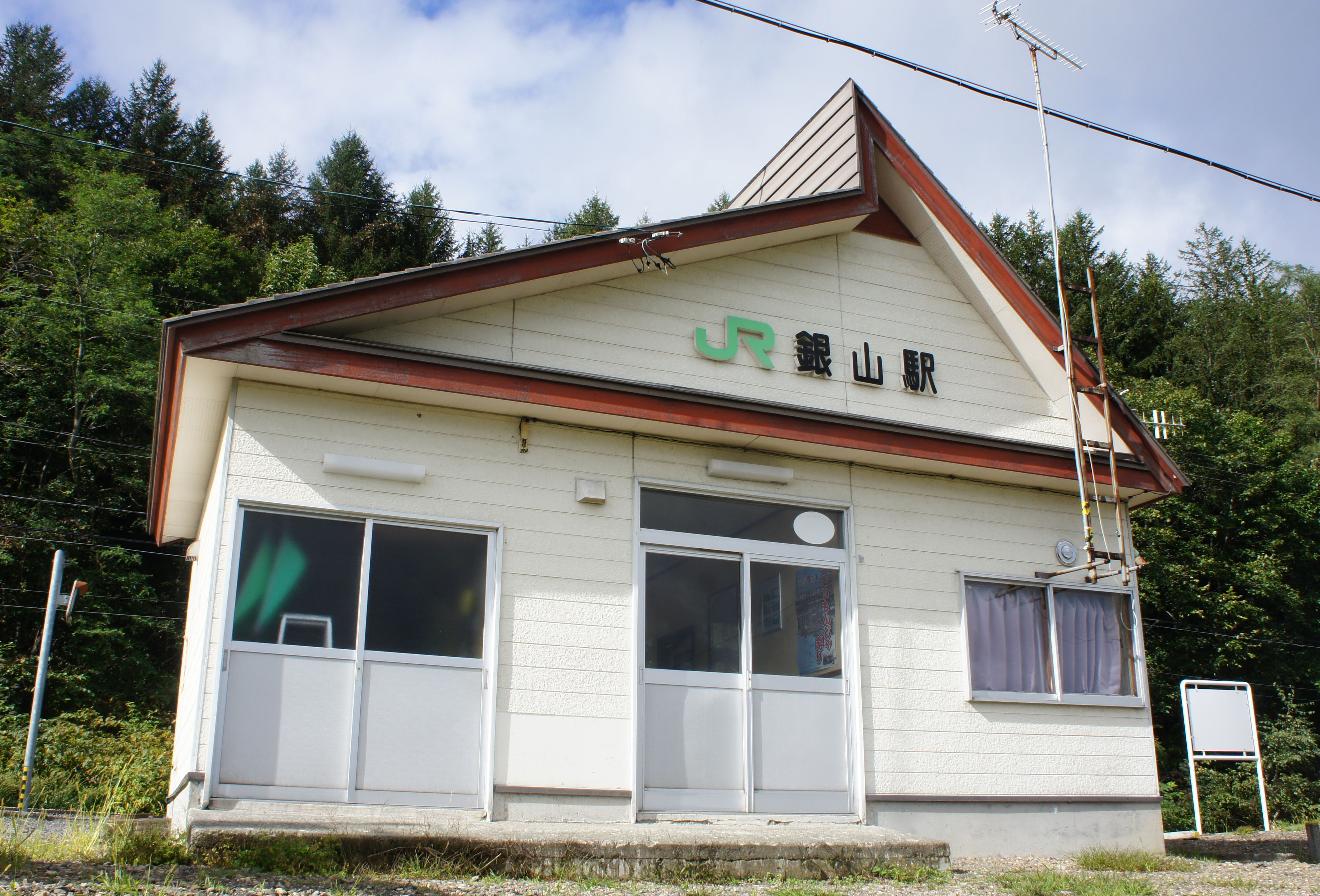 Station building of JR Hakodate-Main-Line Ginzan Station